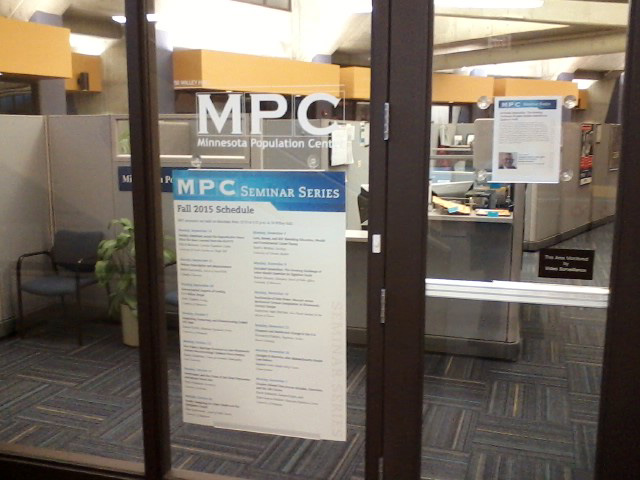 Front door of the Minnesota Population Center on the campus of the University of Minnesota